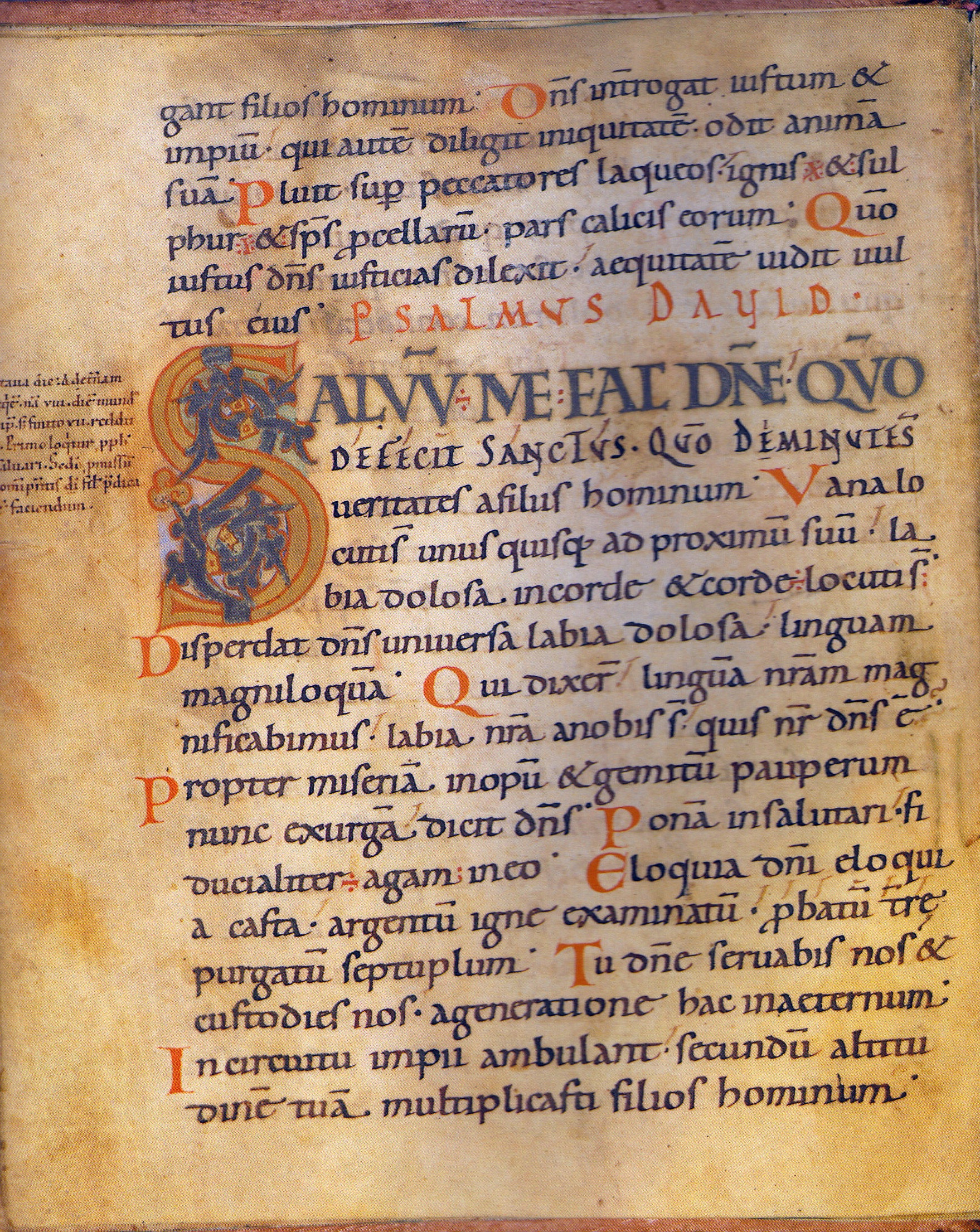 So called Bernward-Psalter